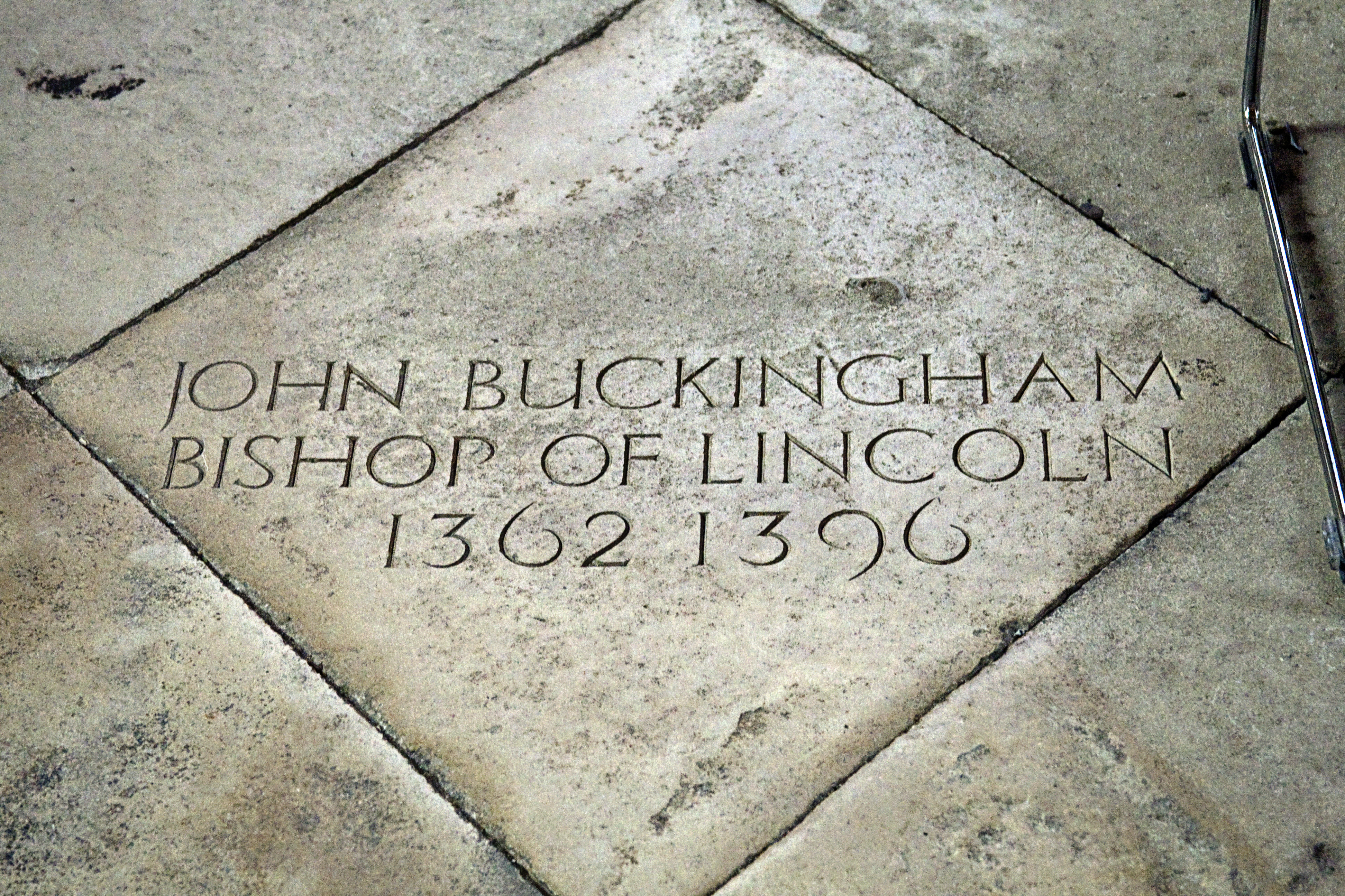 Flagstone commemorating John Buckingham, Bishop of Lincoln, from the center aisle of the nave of Canterbury Cathedral